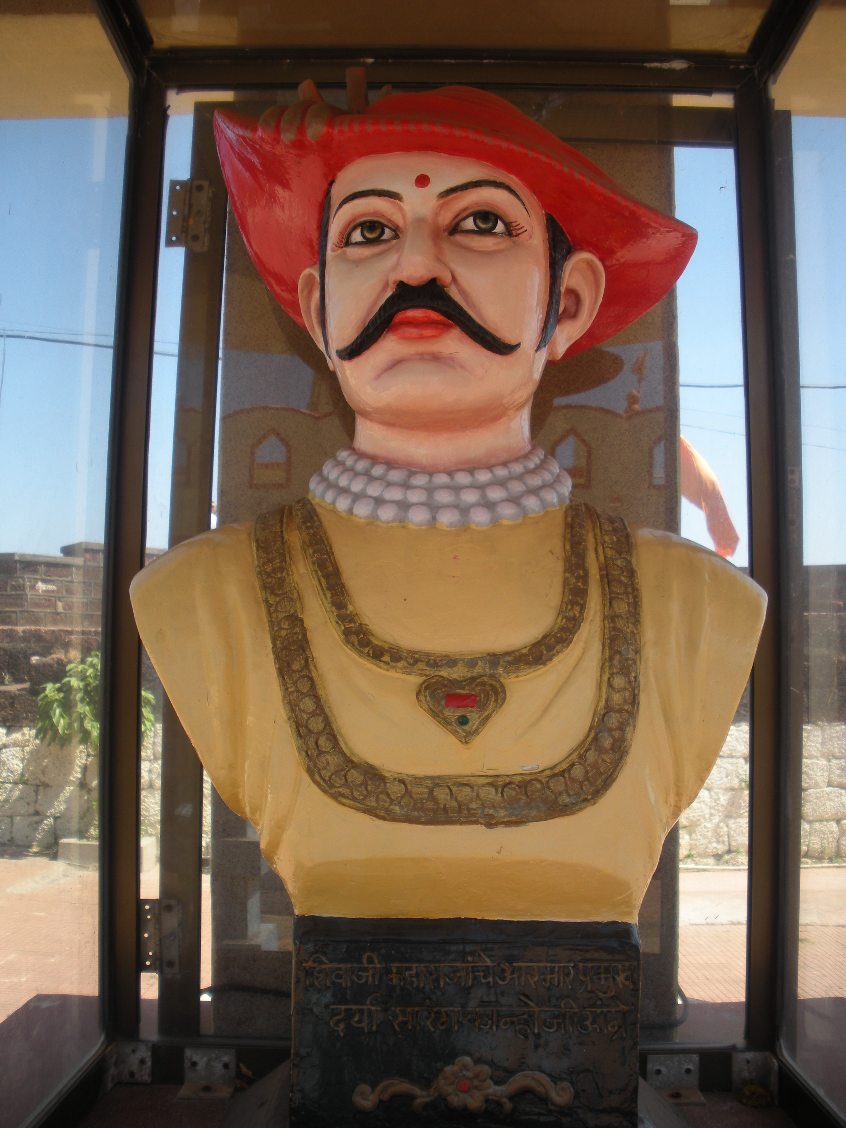 Kanoji Angre Statue, Ratnagad, Ratnagiri